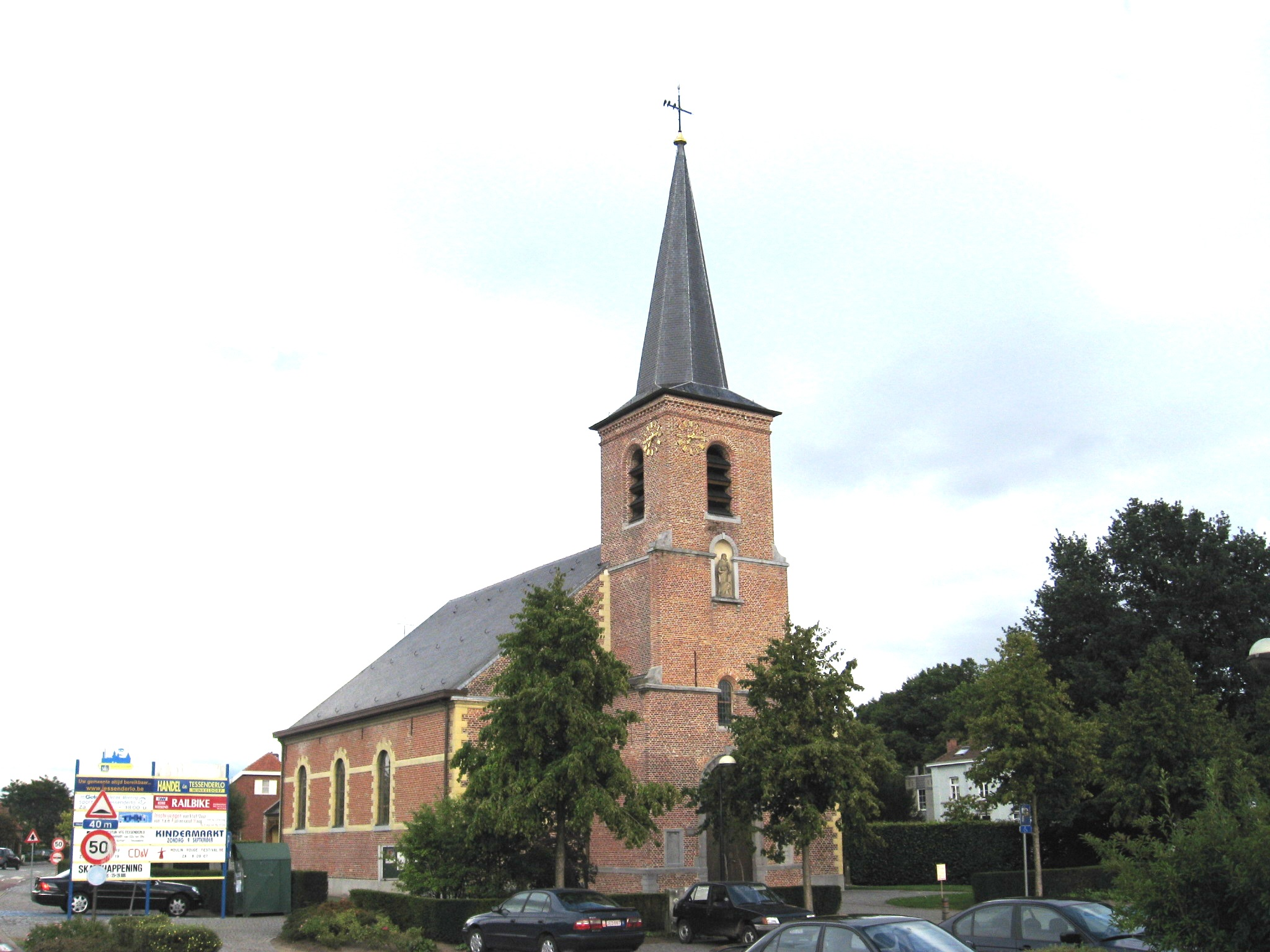 Church of Saint Lucia in Tessenderlo (Engsbergen), Limburg, Belgium